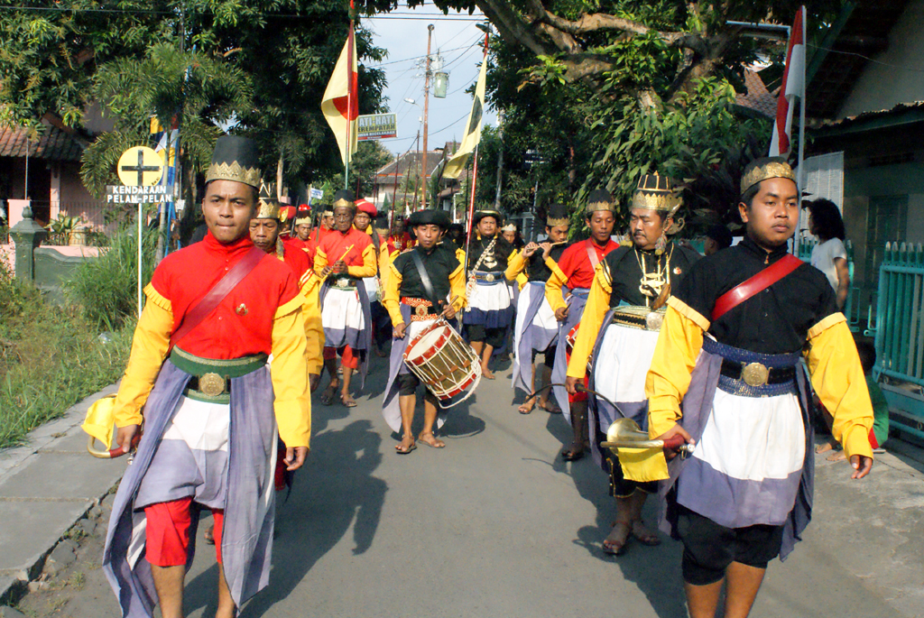 Prajurit Nyutra Keraton Kasultanan Yogyakarta melintas di Kampung Nyutran.